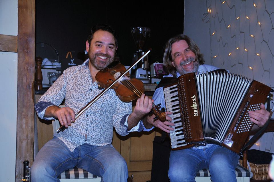 Belshazzar's Feast, 26 November 2016, taken by Suzanne Peedell